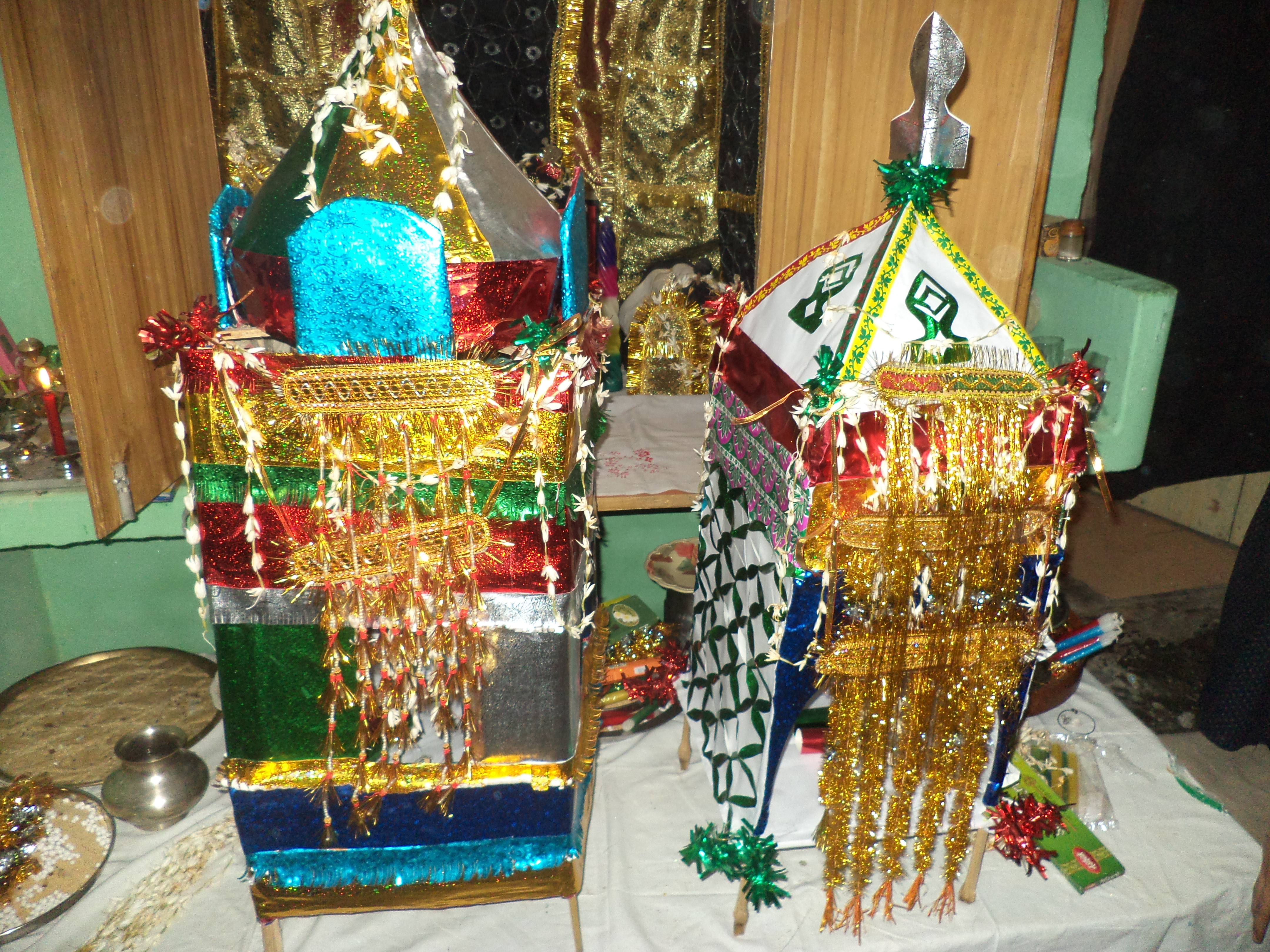 Yaad-e-Hazrat Qasim A.s 7th Muharram In Dhapri Azadari